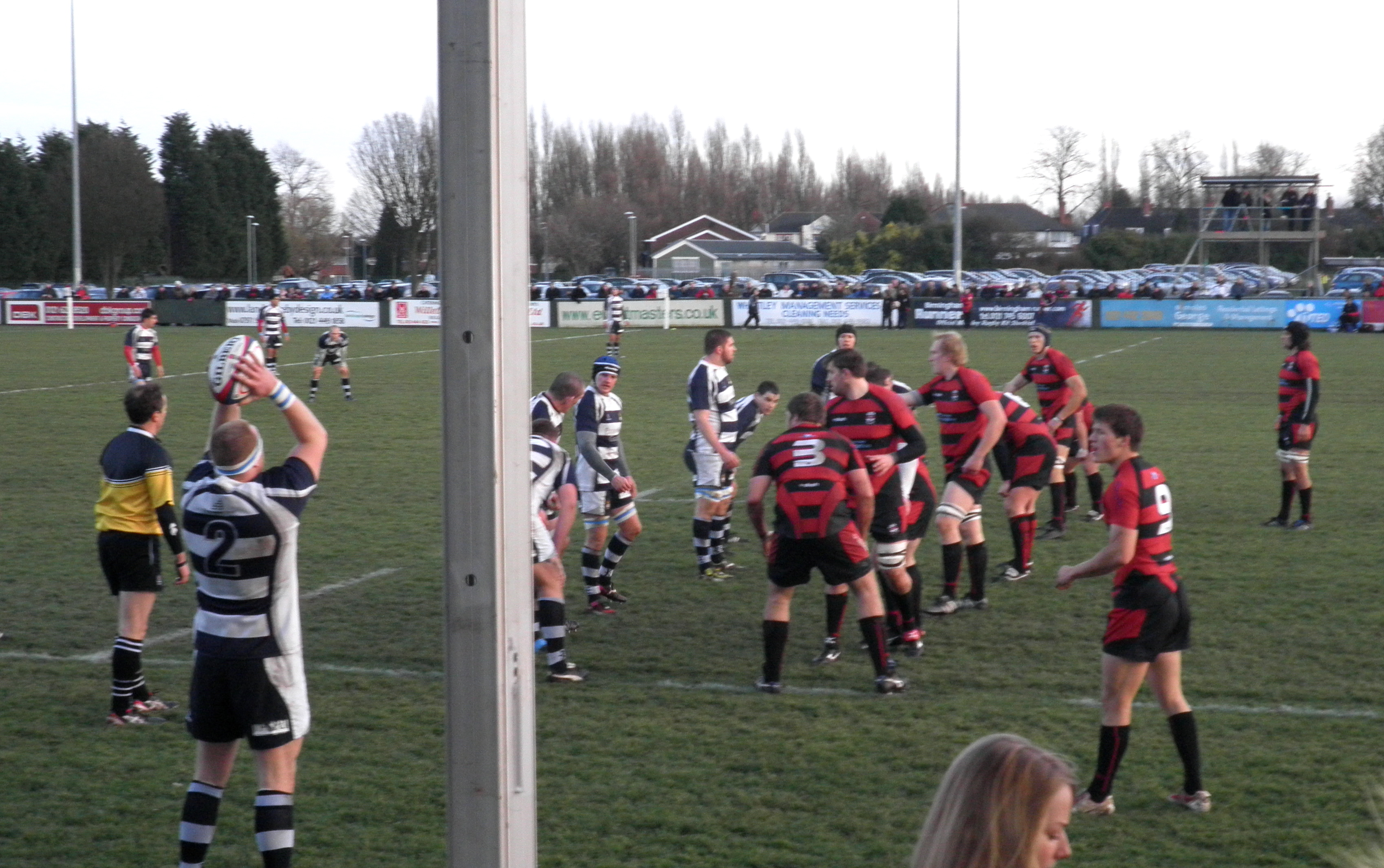 Moseley V Coventry in the Boxing Day derby game at Billesley Common